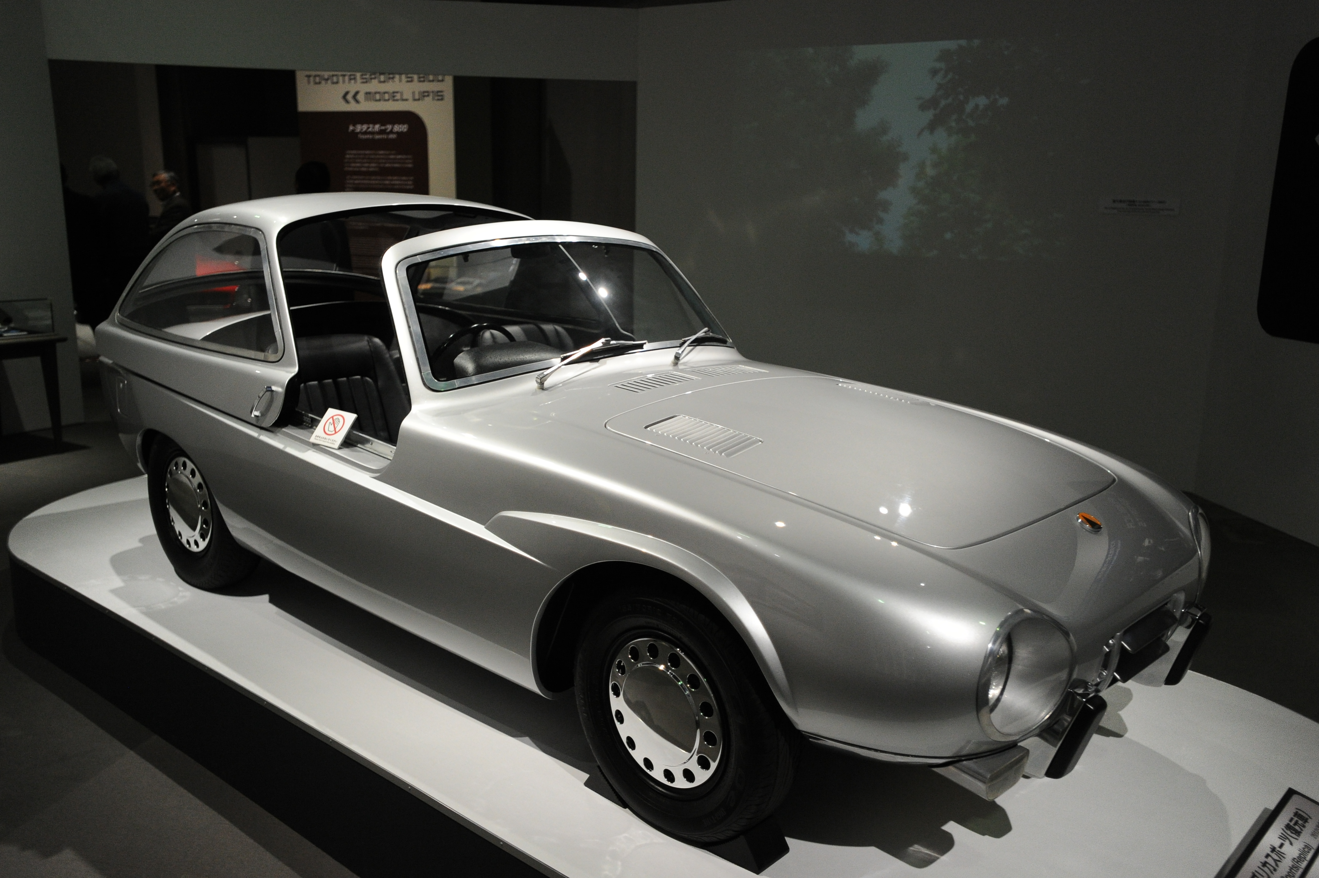 Publica Sports (Reproduction)